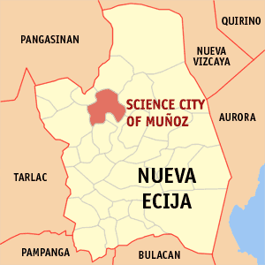 Map of Nueva Ecija showing the location of the Science City of Muñoz